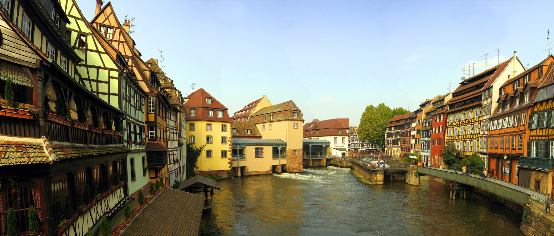 Tanners' quarter in Straßburg